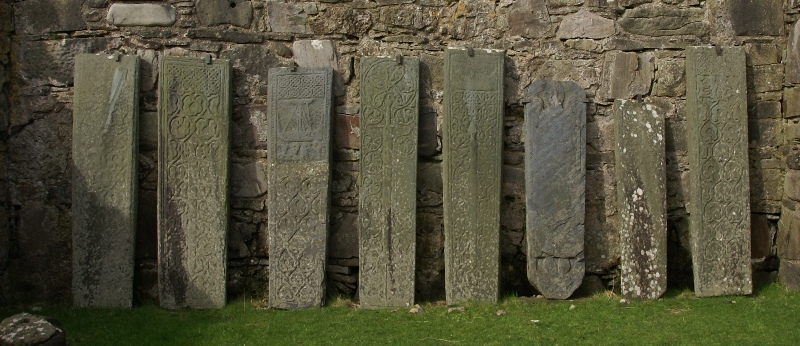 Inchkenneth Chapel, Inch Kenneth, Argyll and Bute, Scotland. Interior: west highland graveslabs (14c-15c, Iona school).